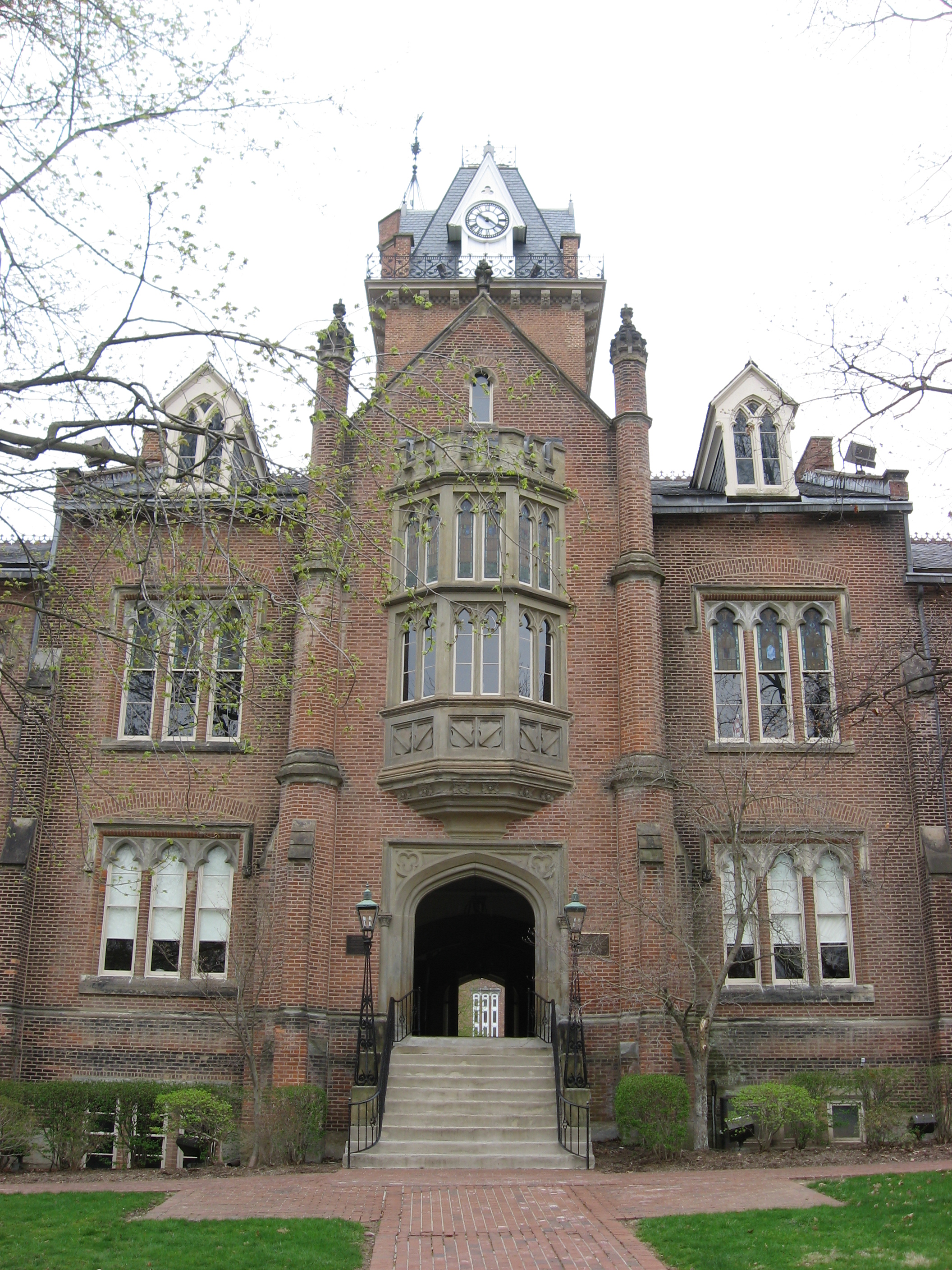 Eastern front of Old Main at Bethany College in Bethany, West Virginia, United States. Built in 1858, it has been declared a National Historic Landmark, and it is part of a historic district, the Bethany Historic District, that is listed on the National Register of Historic Places.